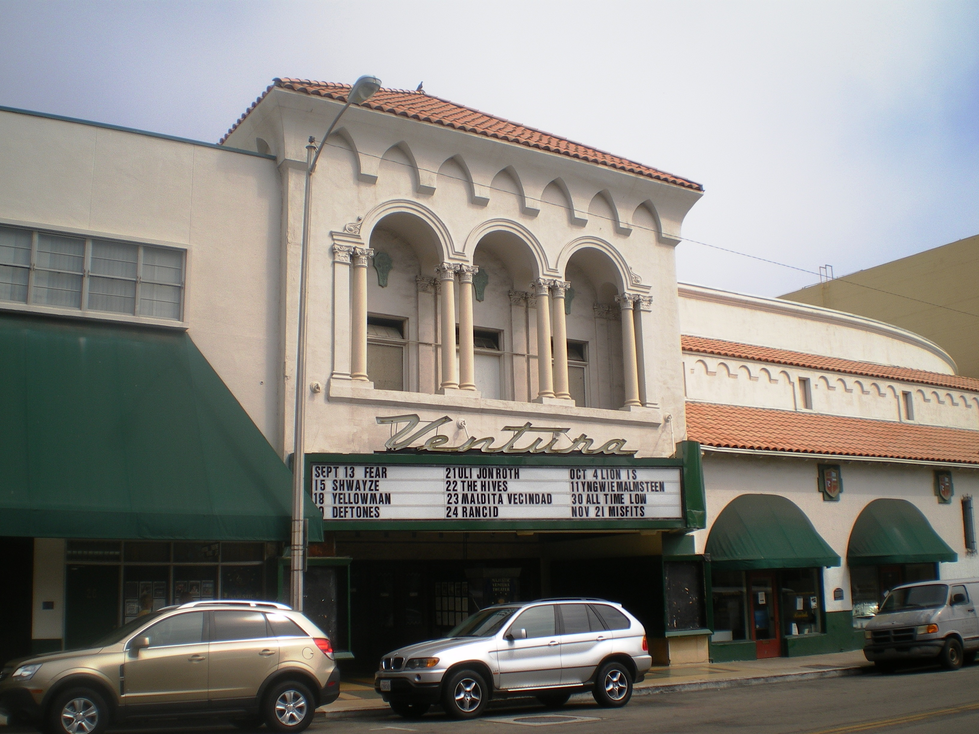 Ventura Theater, 26 S. Chestnut, Ventura, California